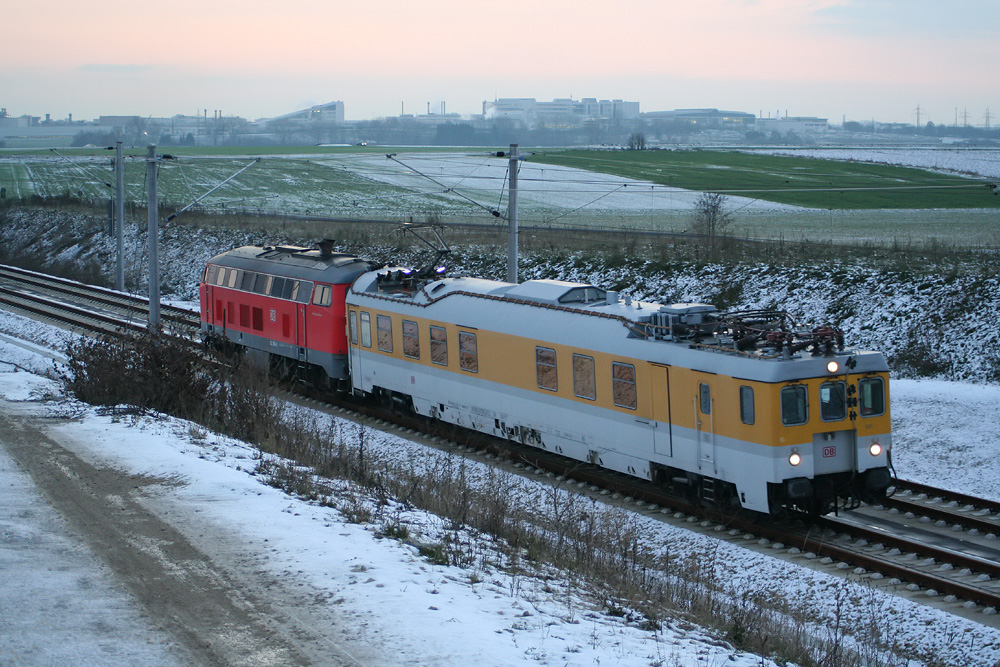 A test run to measure the catenary system on the Nuremberg–Ingolstadt high-speed railway line